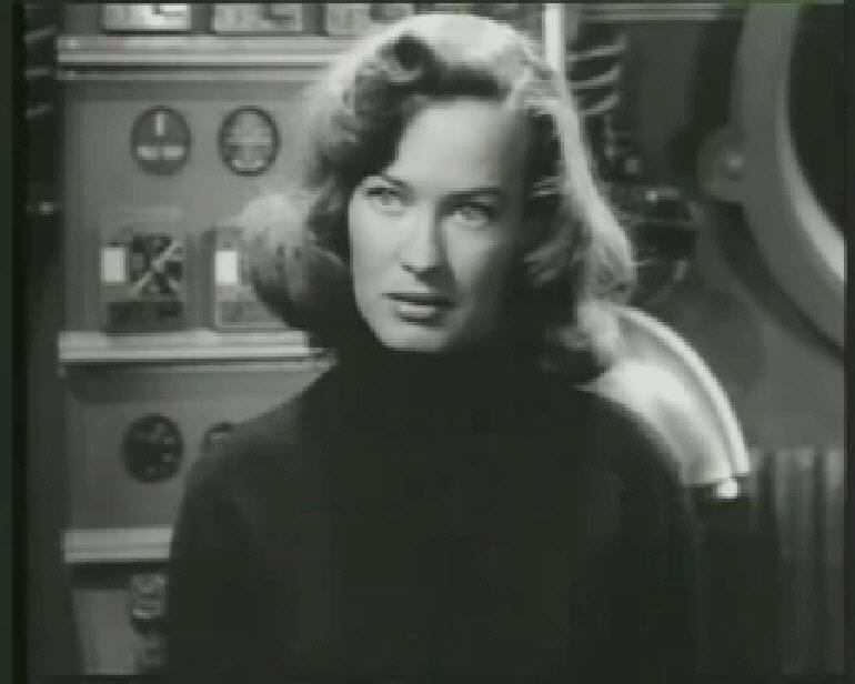 Osa Massen Jr. in Rocketship X-M (cropped screenshot)